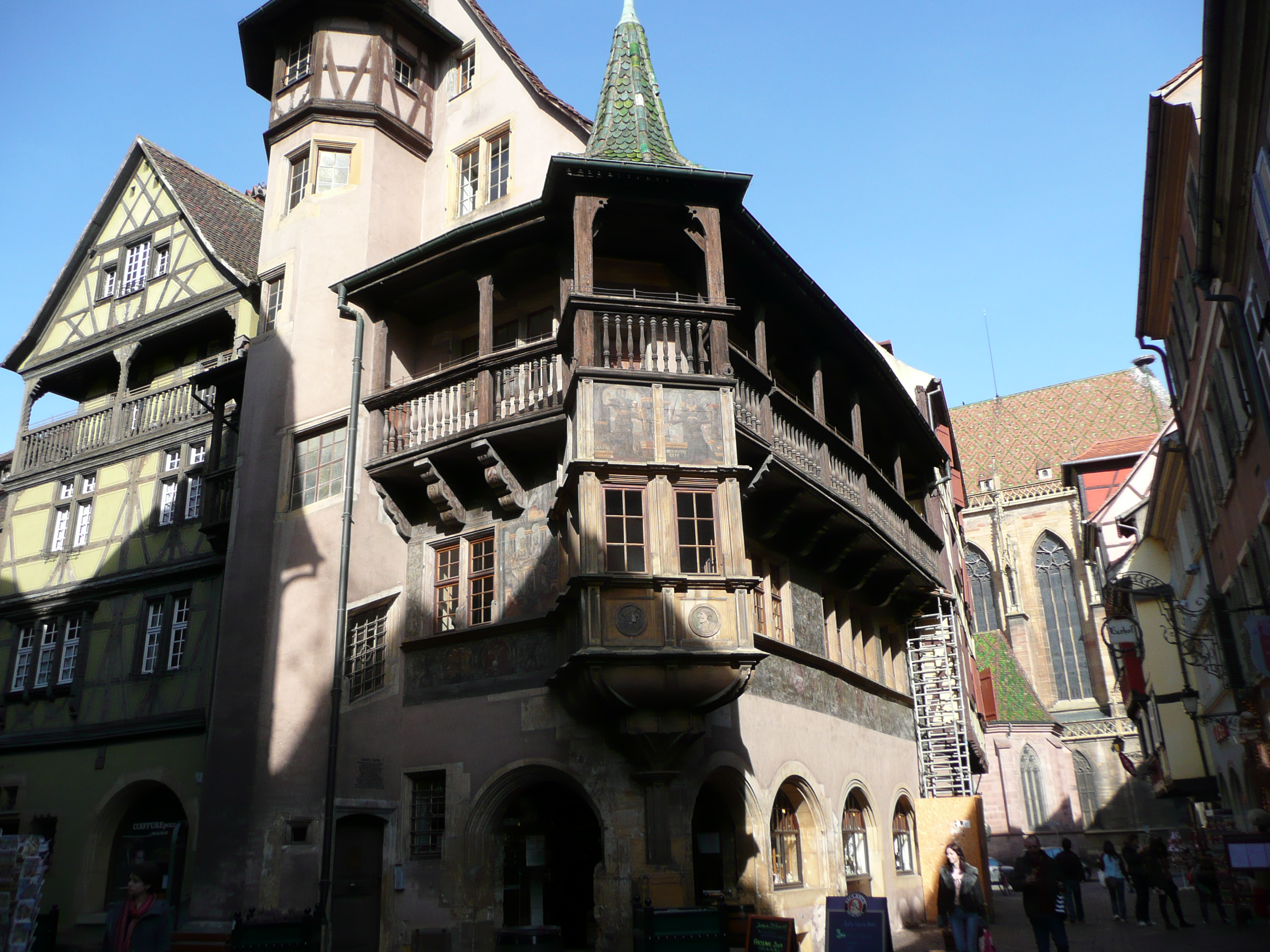 House Pfister, built in 1537, in Colmar (France)